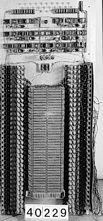 Magnetic core memory for the BESK computer the second Swedish computer.